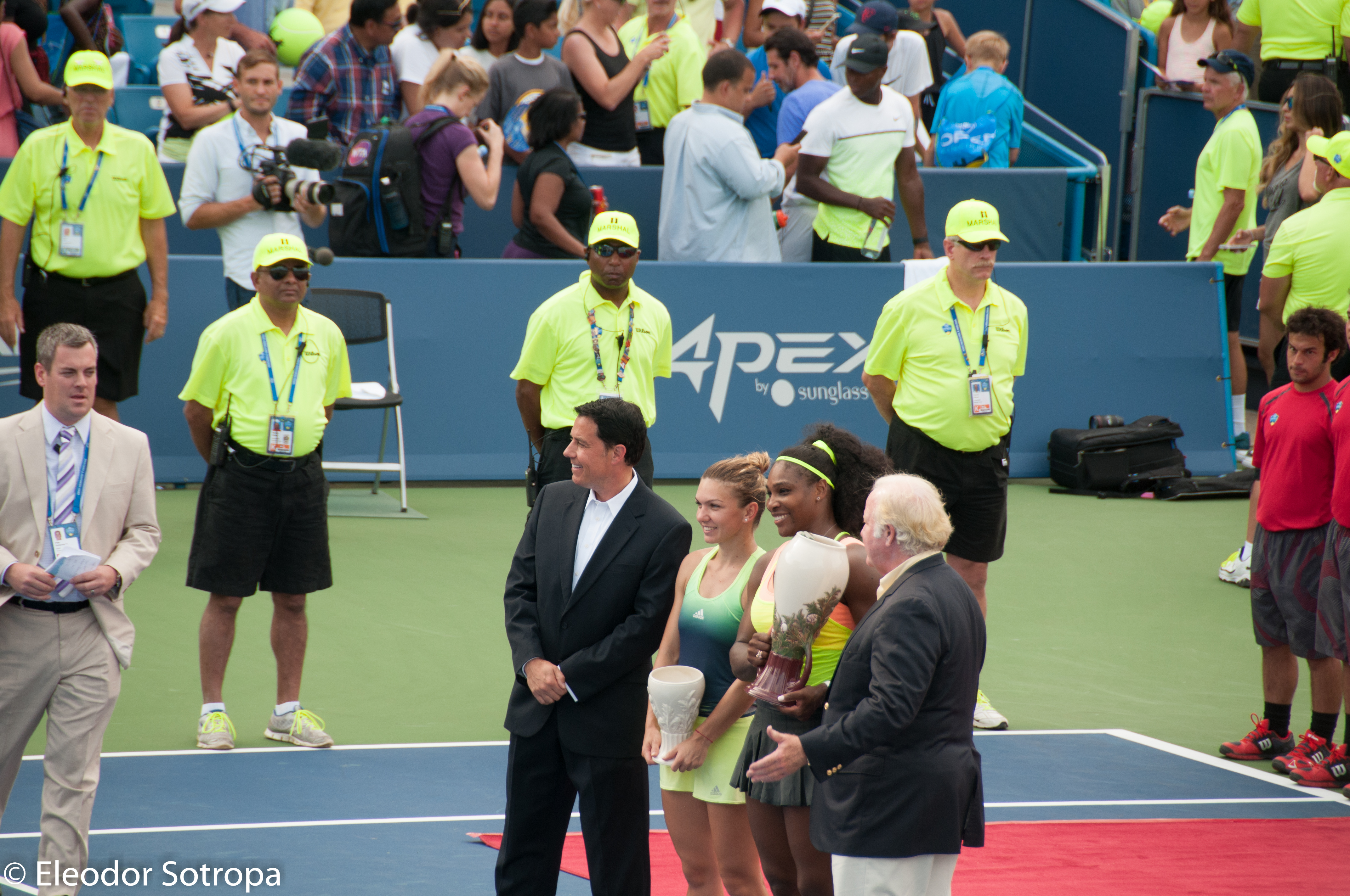 Cincinnati-Tennis-2015-ATP-WTA-193